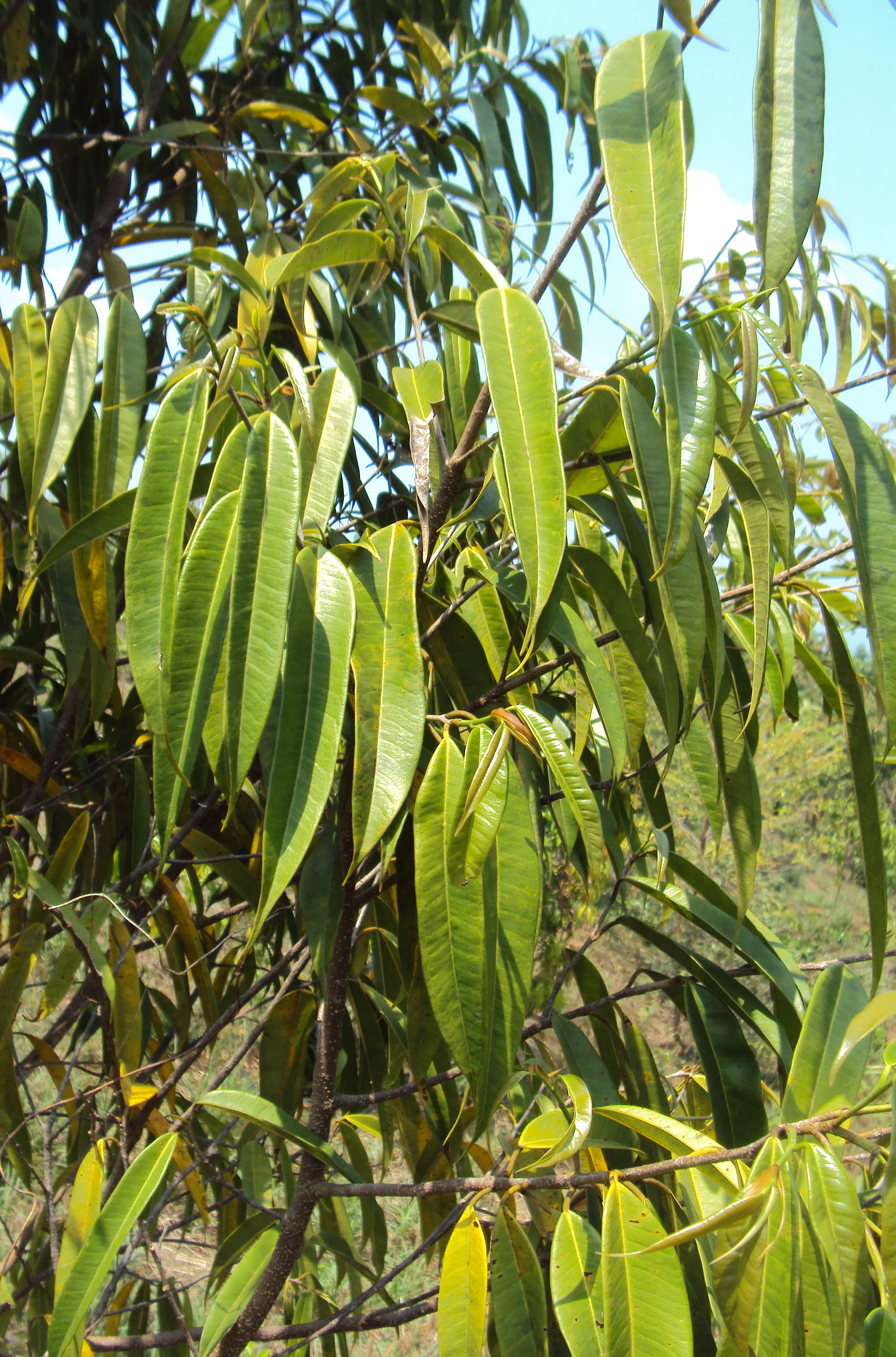 Ficus Longifolia